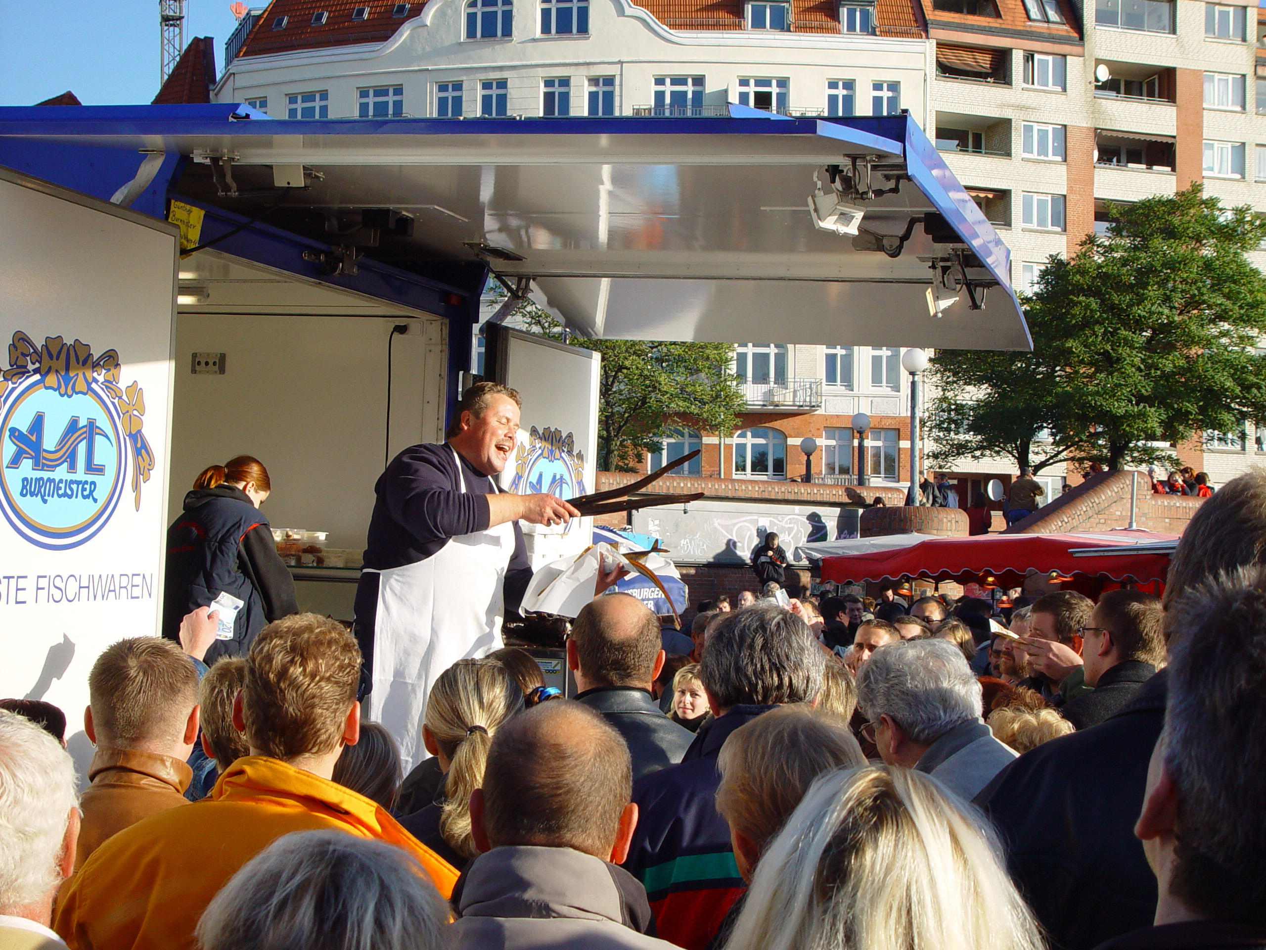 Eel seller at the fishmarket of Hamburg-Altona ("Altonaer Fischmarkt")